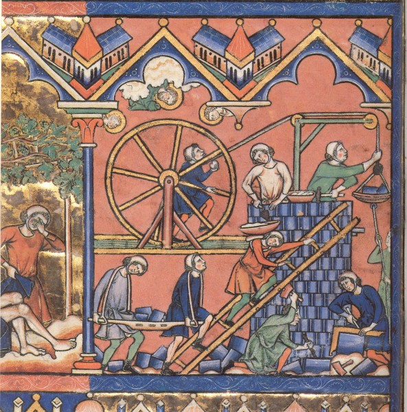 This is a richly decorated example of life on a 13th century fortress castle construction site. A treadmill crane is featured. A reconstruction of this medieval crane can be seen at Guédelon in Treigny, France.